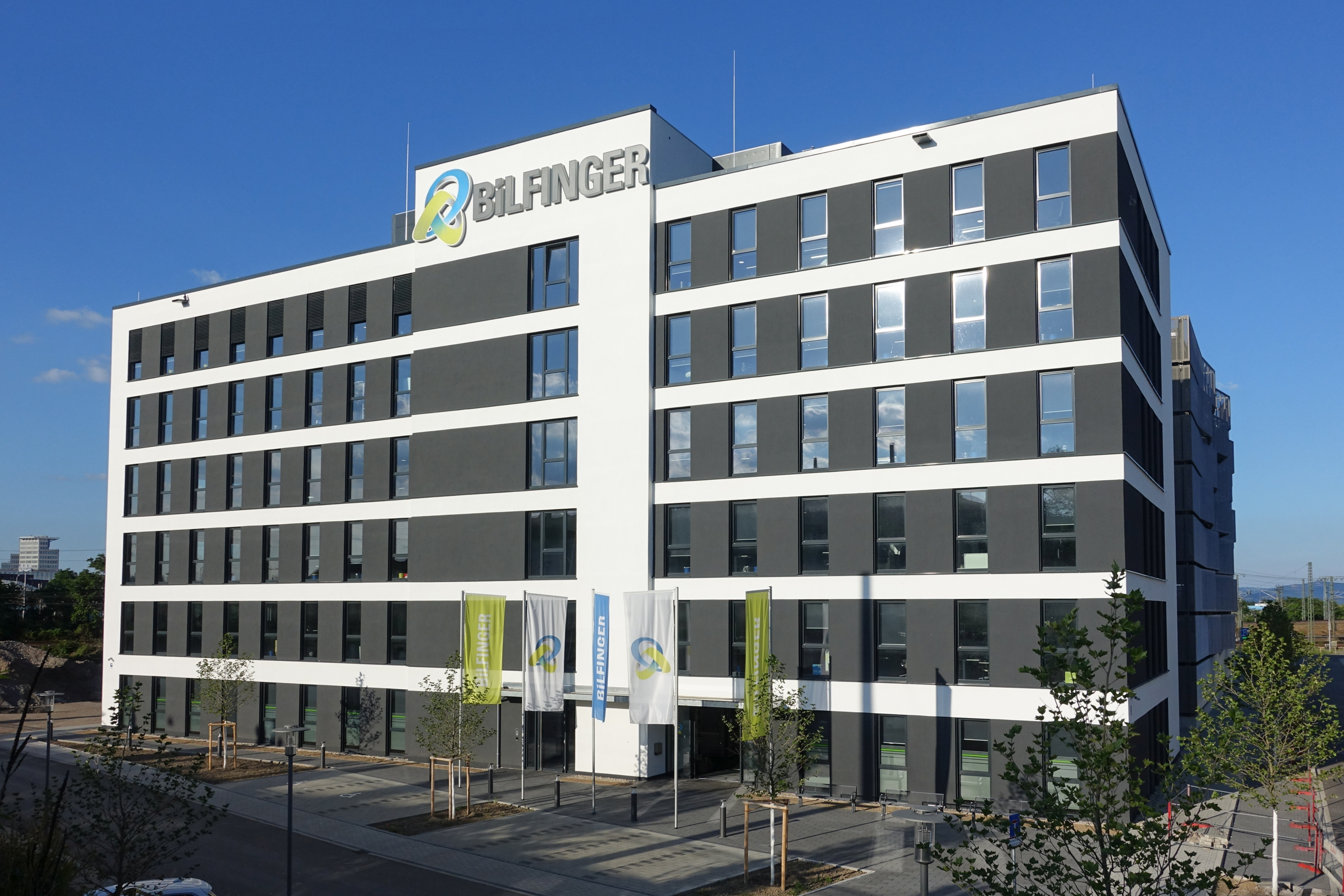 Building of the Bilfinger headquarters, Mannheim, Germany)